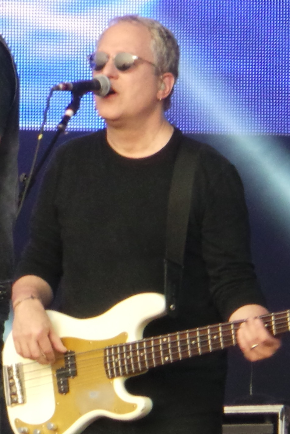 Hugh McDonald in Hyde Park, London.